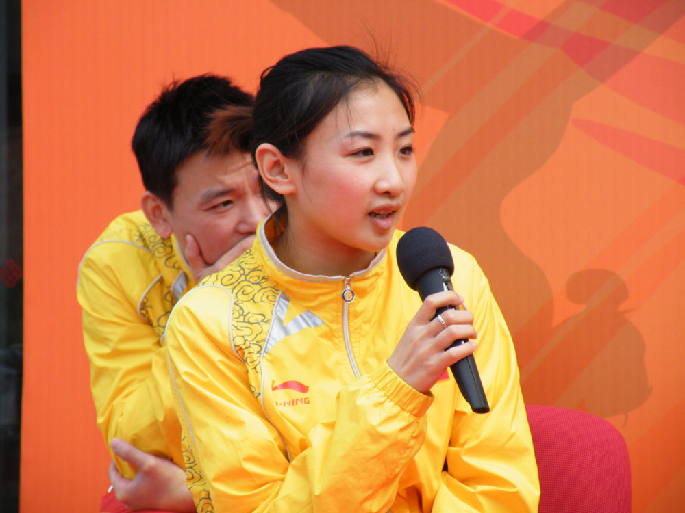 He Wenna(何雯娜) in the Q & A section during the official visit in Hong Kong Polytechnic University on 2008.11.19.